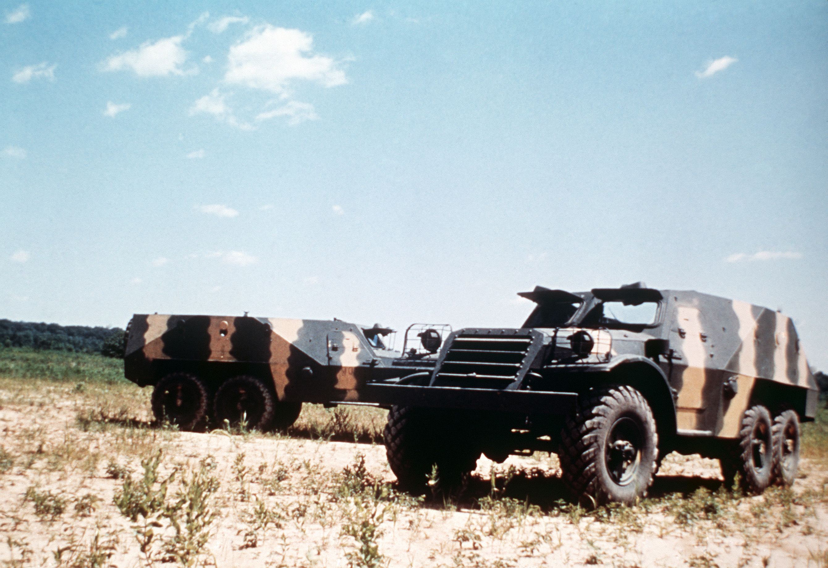 Left front view of a Soviet-built BTR-152V2 armored personnel carrier, with another BTR-152V2 in the background.